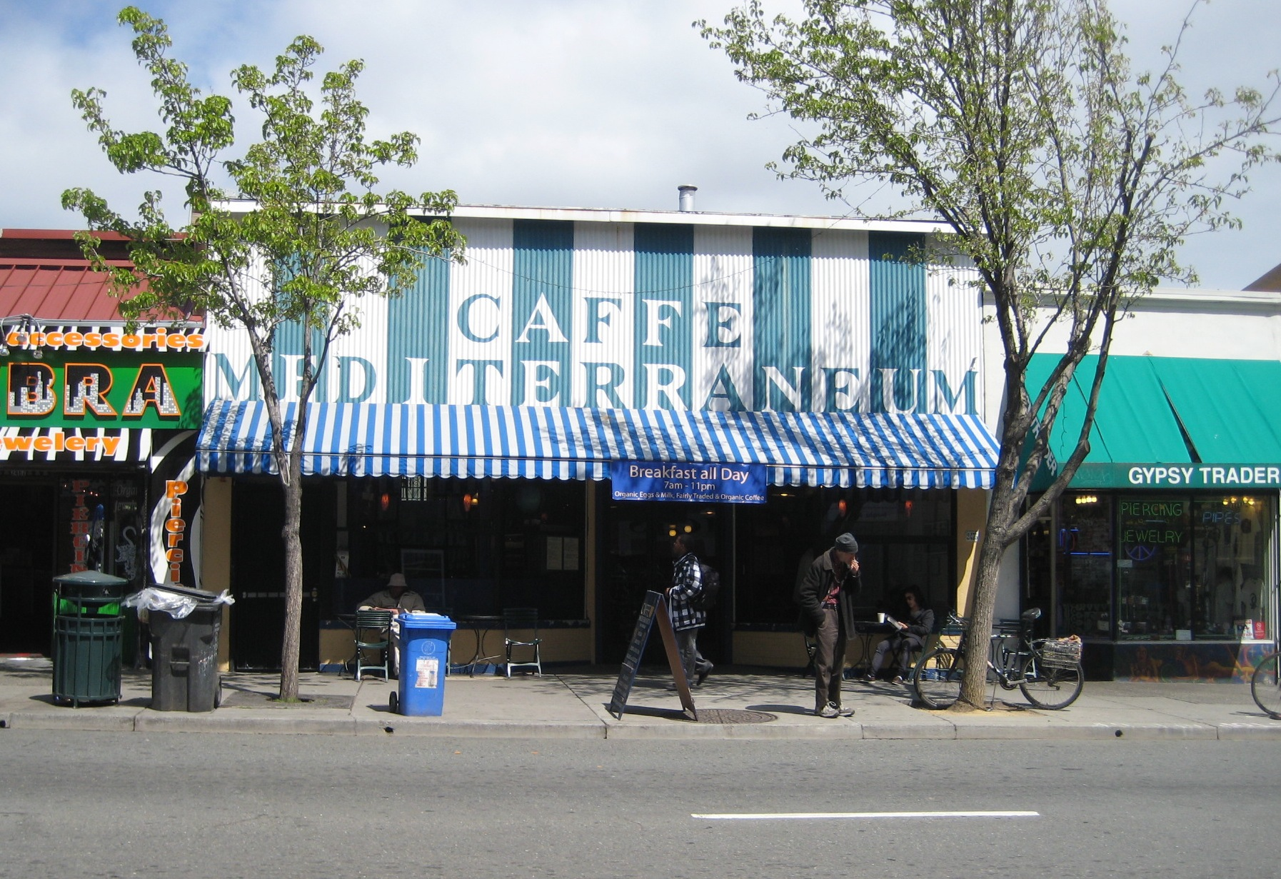 Caffe Mediterraneum, located on Telegraph Avenue in Berkeley, California. the self proclaimed creator of the Caffe Latte.